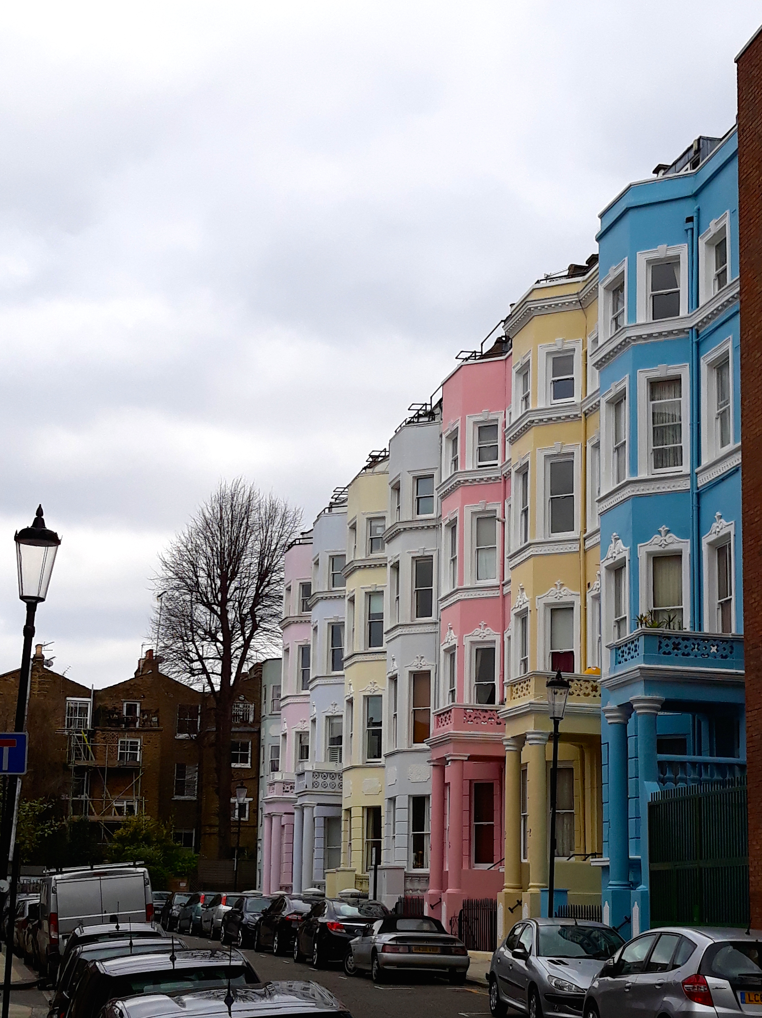 Street scene in Notting Hill, London, U.K.